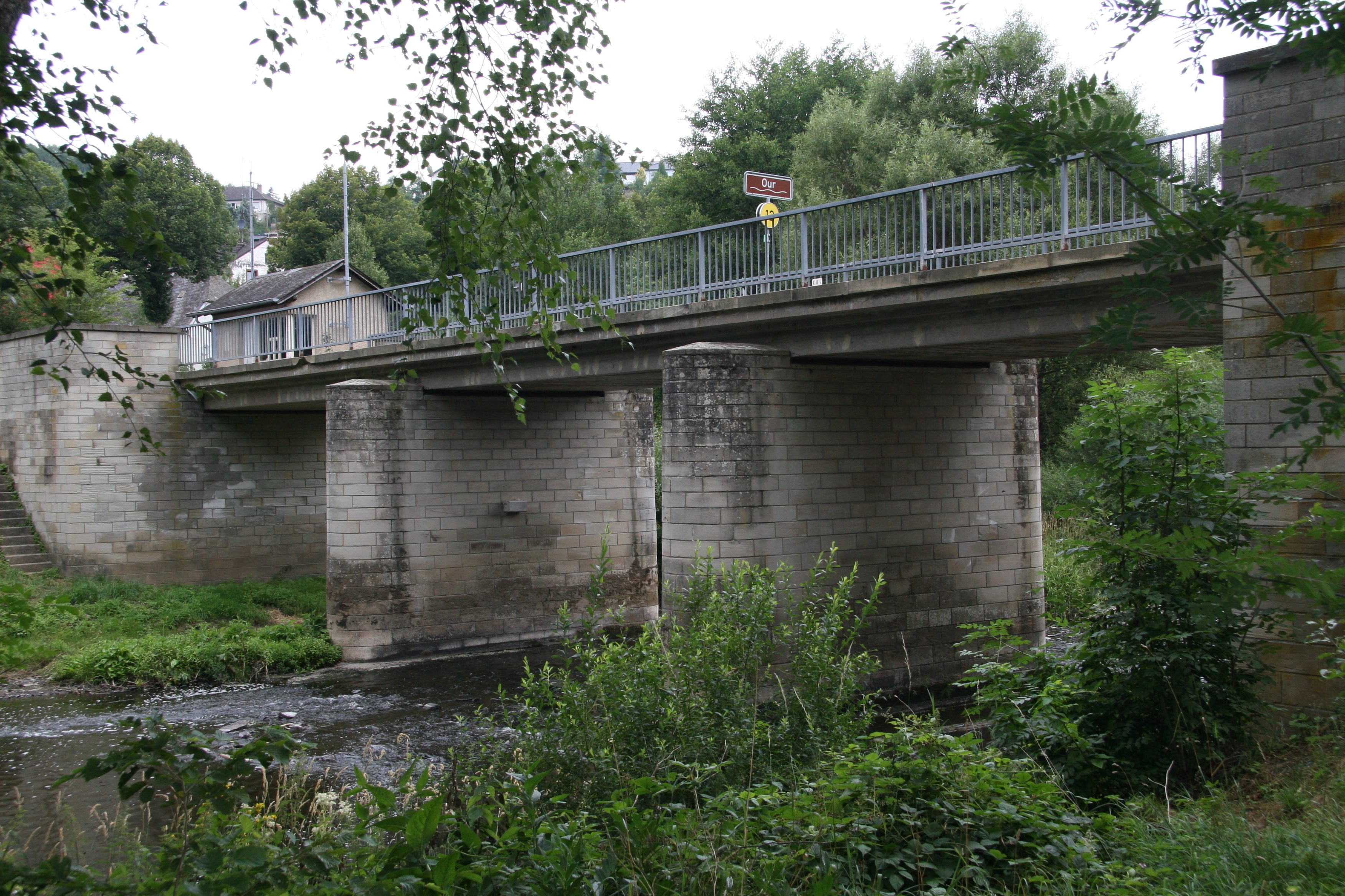 View from Germany on the bridge between Eisenbach (Luxembourg) and Übereisenbach (Germany).